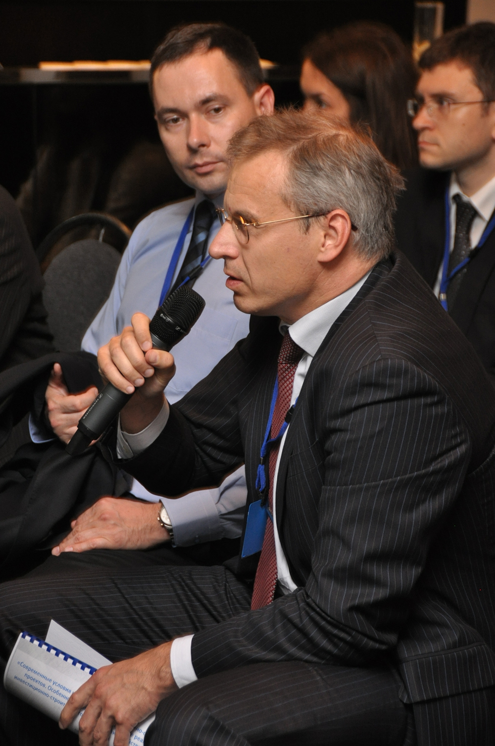 Семинар РСИ 4